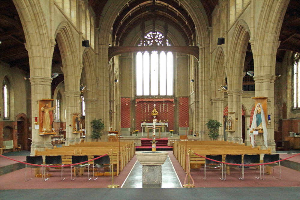 Inside All Saints' parish church, Campbell Road, Twickenham Twickenham, southwest London, looking northeast to the chancel